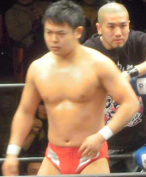 Japanese professional wrestler, Tatsuhiko Yoshino.Dec 31 2011 Toshikoshi PRO-WRESTLING Korakuen Hall.